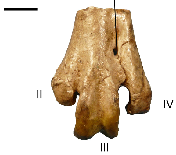 Cranial view of the tarsometatarsus of Psilopterus colzecus, a species of terror bird. The line is for scale and has a lenght of one cm.